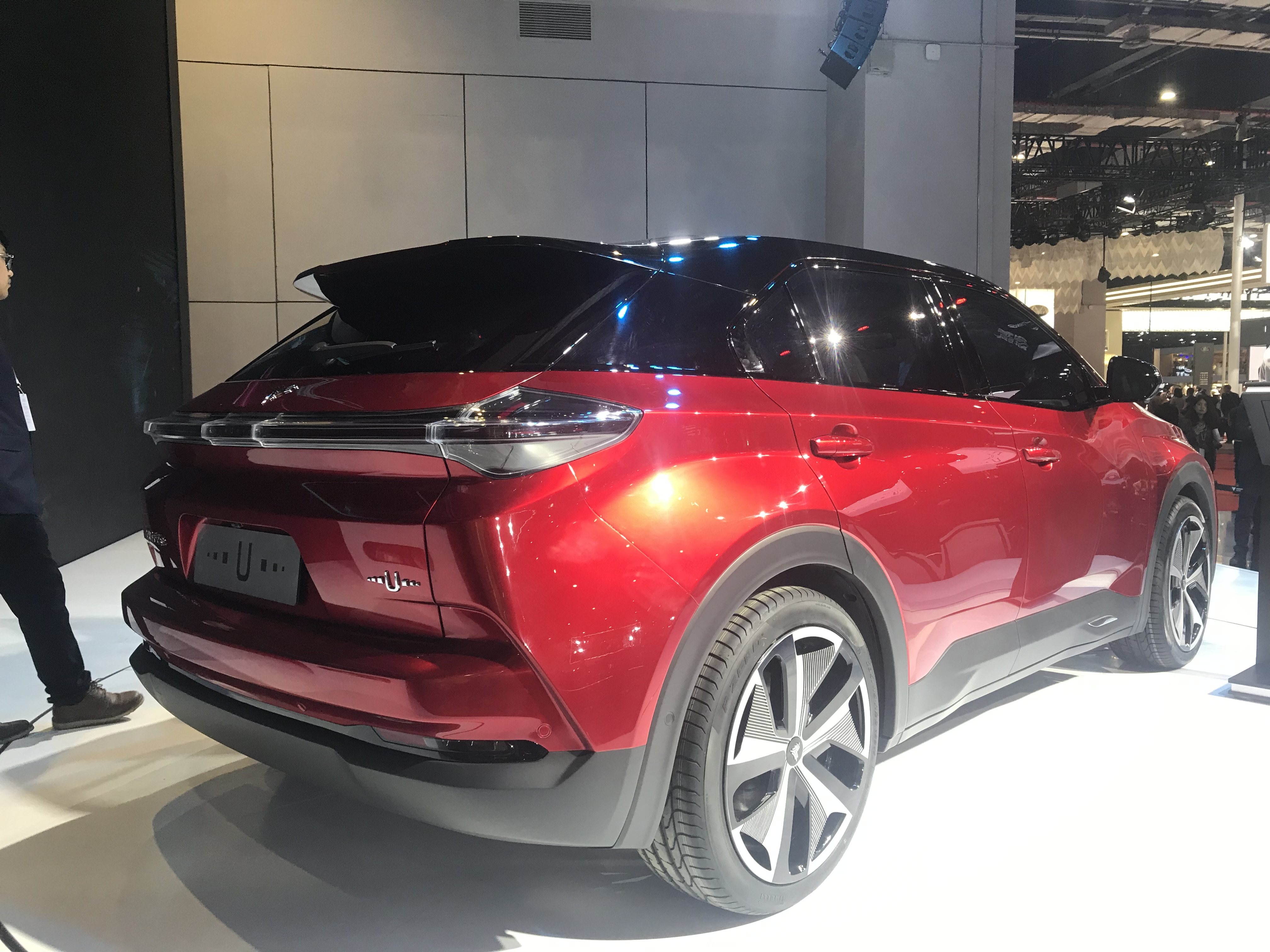 Hozon U